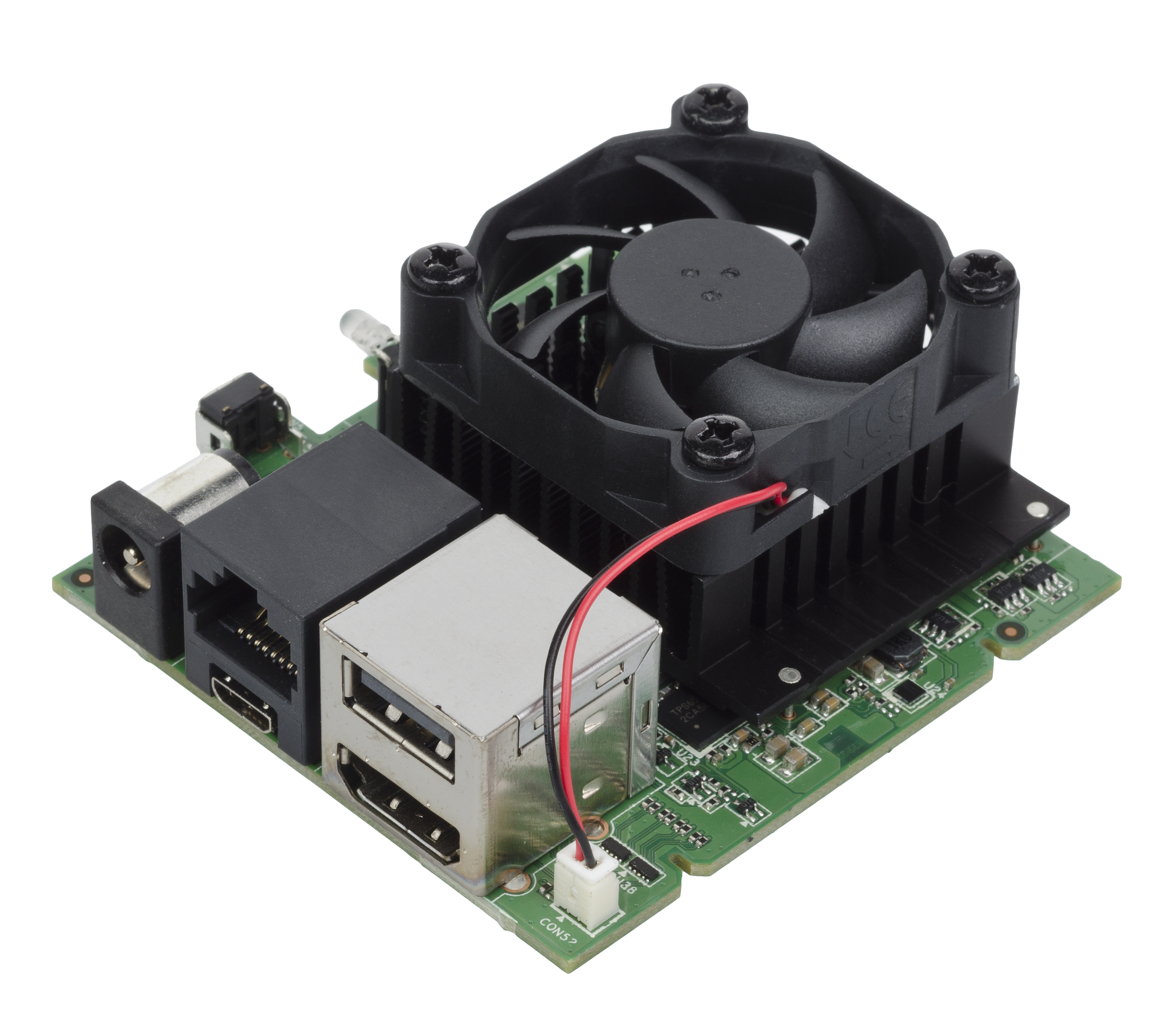 The motherboard of the Ouya, a gaming microconsole that runs a modified version of the Android operating system. Released in 2013, the Ouya started out as a Kickstarter project that raised over 8 million dollars. Though based off of phone hardware and an Android operating system, games for the system must be specifically ported to the Ouya and sold through its digital distribution service. The Ouya's motherboard is very small, as the console runs on hardware commonly used in cell phones. Specifically, the console runs of a Nvidia Tegra 3 chip.